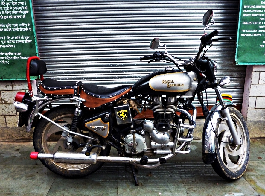 I took this photo on a visit to Rewalsar, Himachal Pradesh, India in 2010.